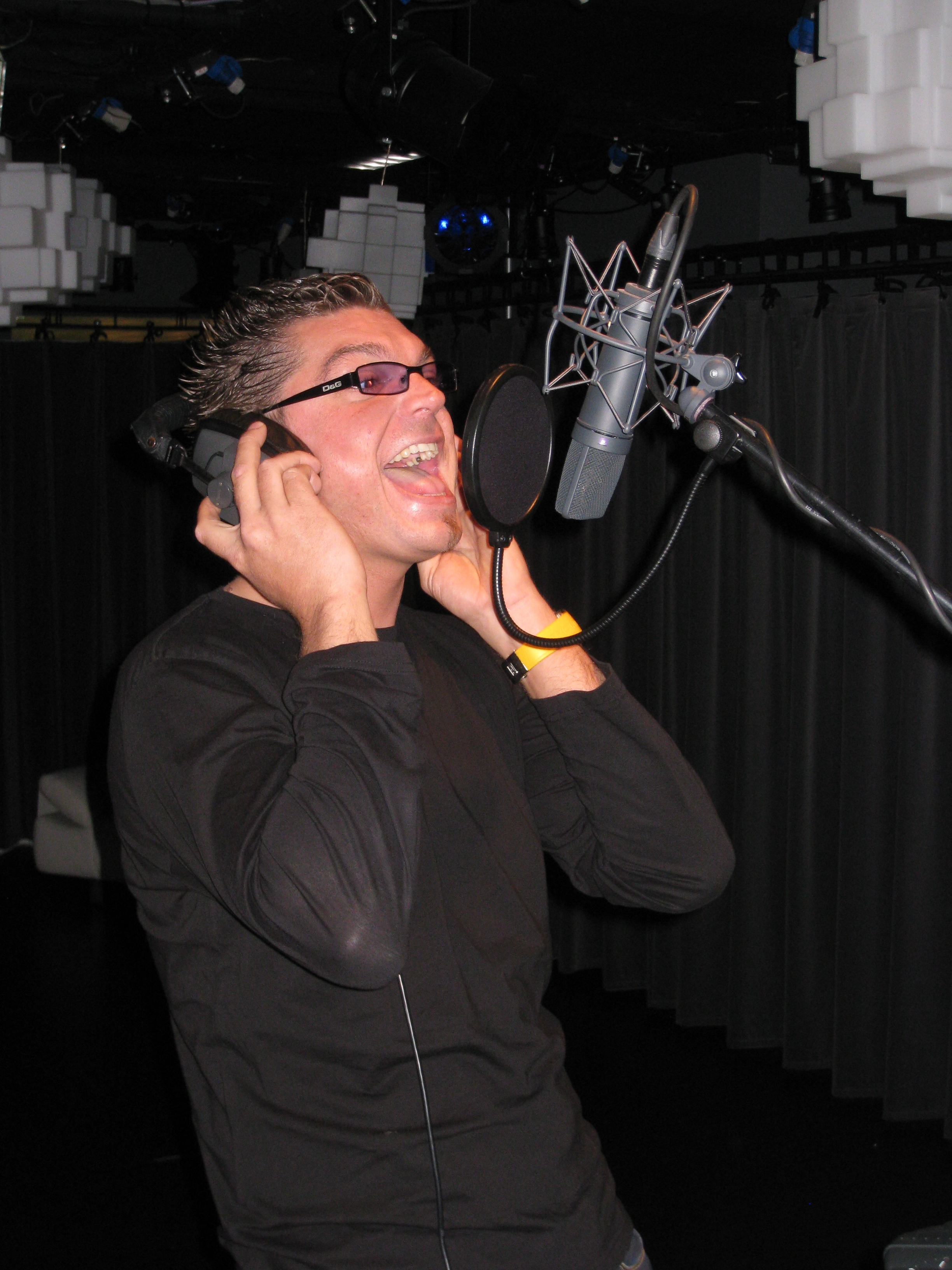 Danzel performing live at Q-music